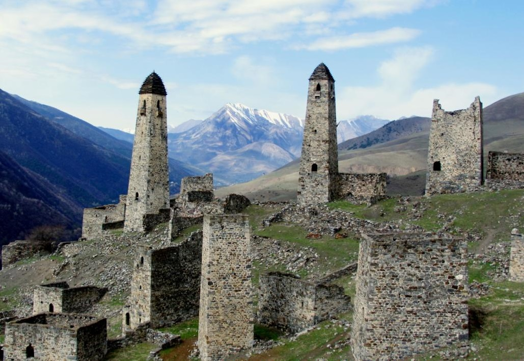 Typical Ingush Castle